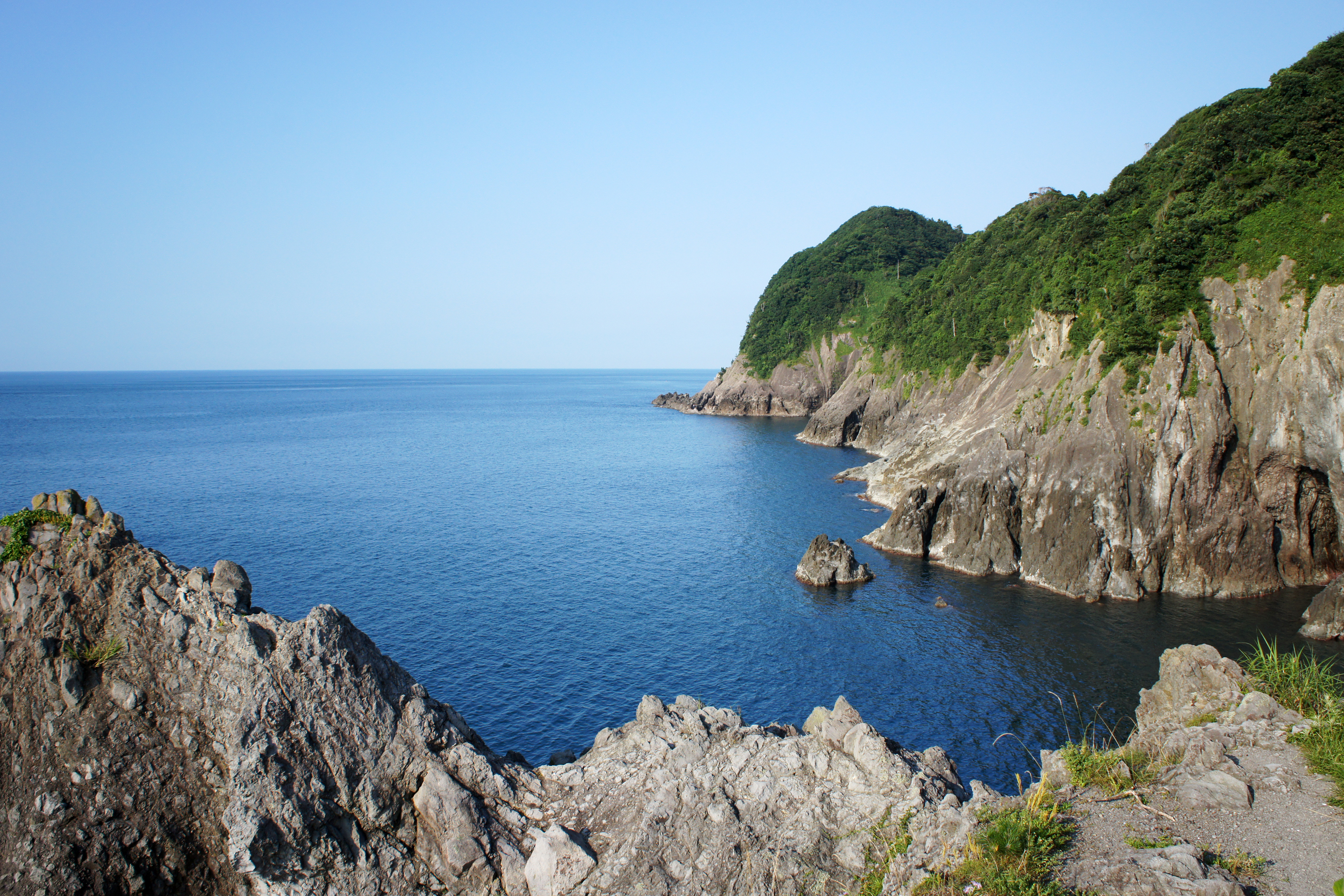 at Obiki-no-hana of Kasumi Coast in Kami, Hyogo prefecture, Japan. It belongs to a Sanin Kaigan National Park.